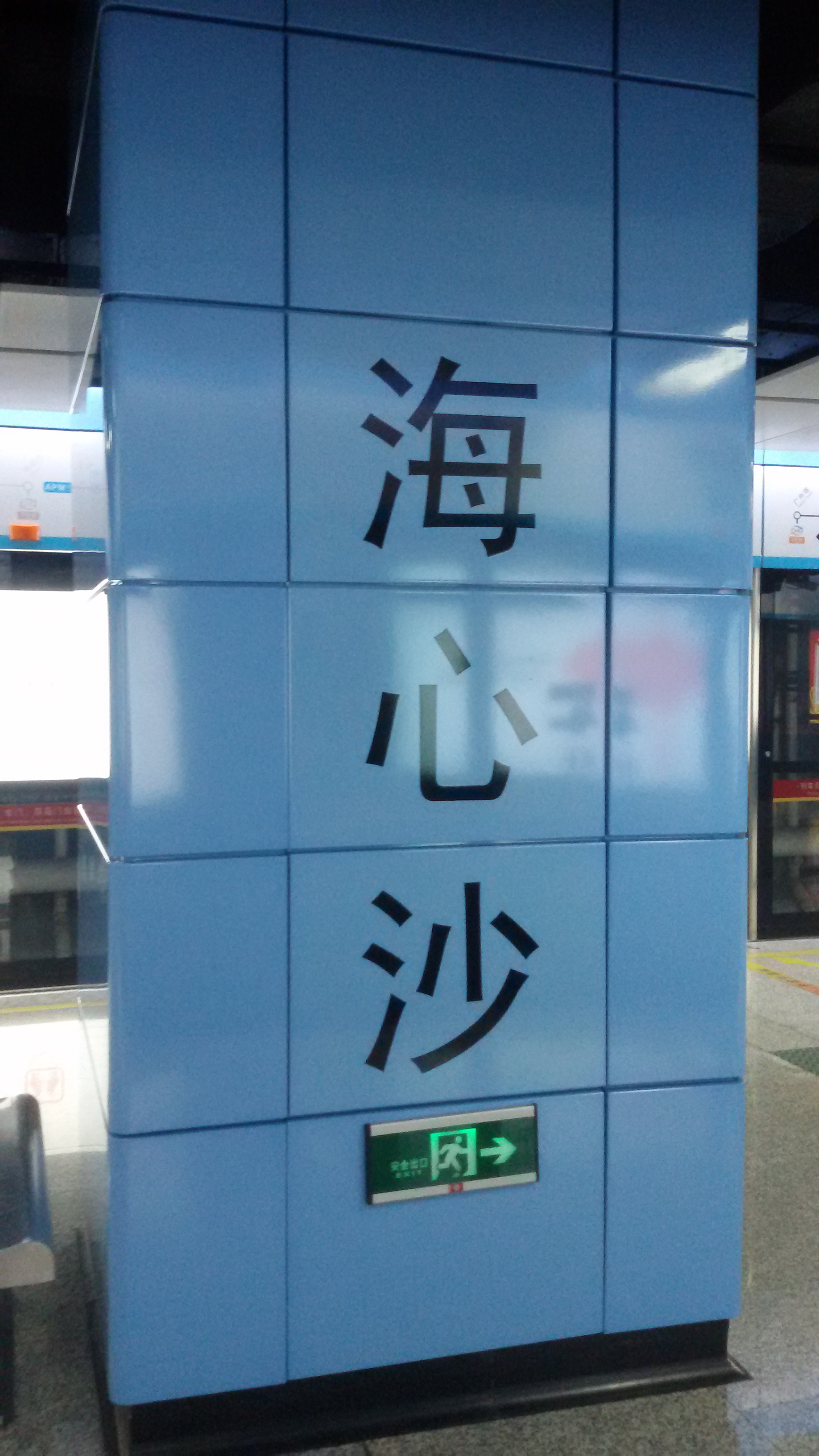 WORD on PILLAR for Haixinsha Station in Guangzhou Metro